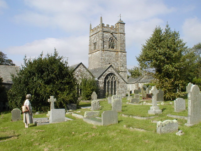 Blisland, Church of St. Protus and St. Hyacinth. This church was one of the first to be discovered in his childhood days by Sir John Betjeman whilst out riding his bicycle. Blisland Church is unusual in that it is on the edge of a village green, the only village in Cornwall to boast one.